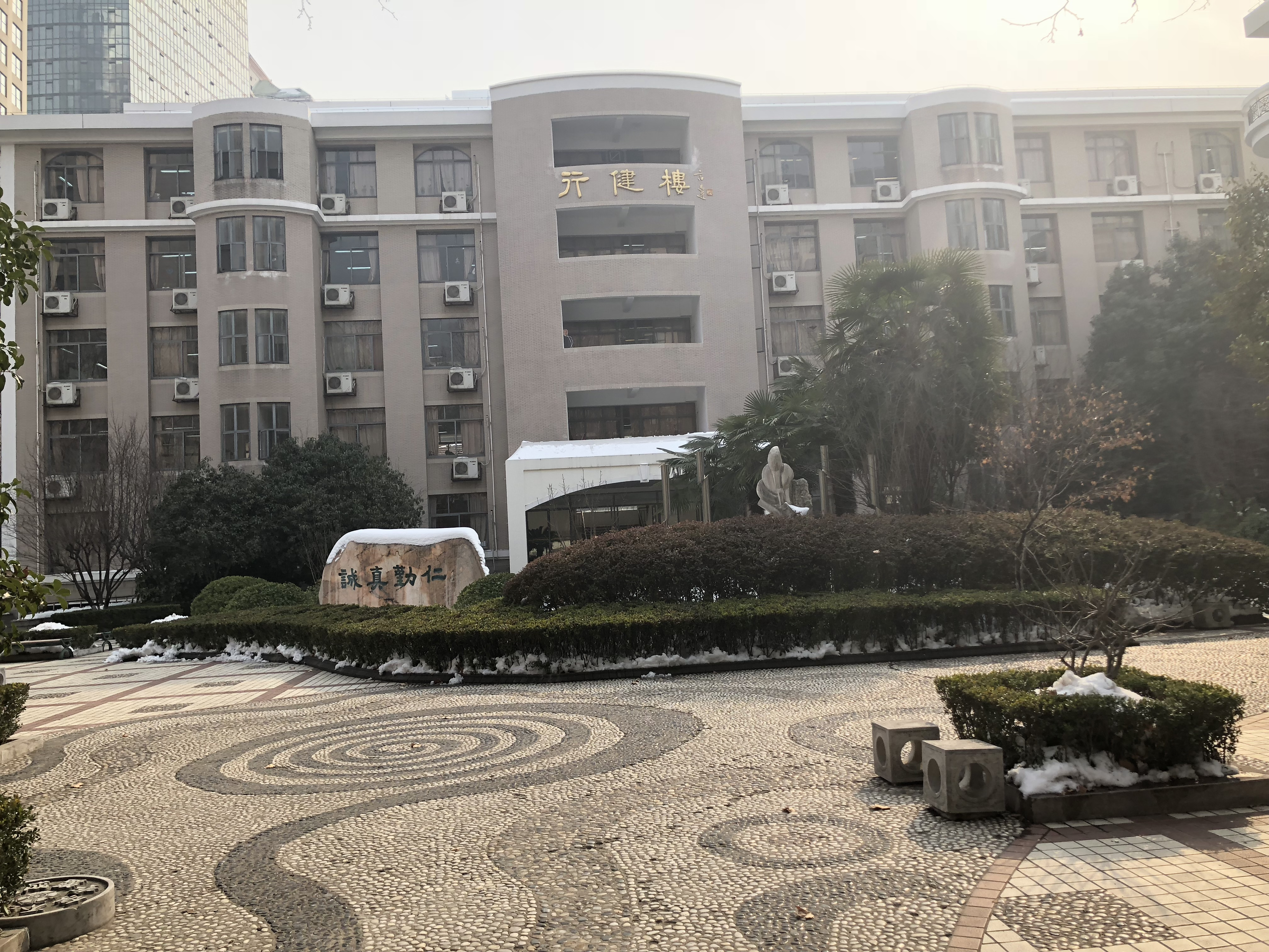 Xingjian Building in Nanjing Jinling High School